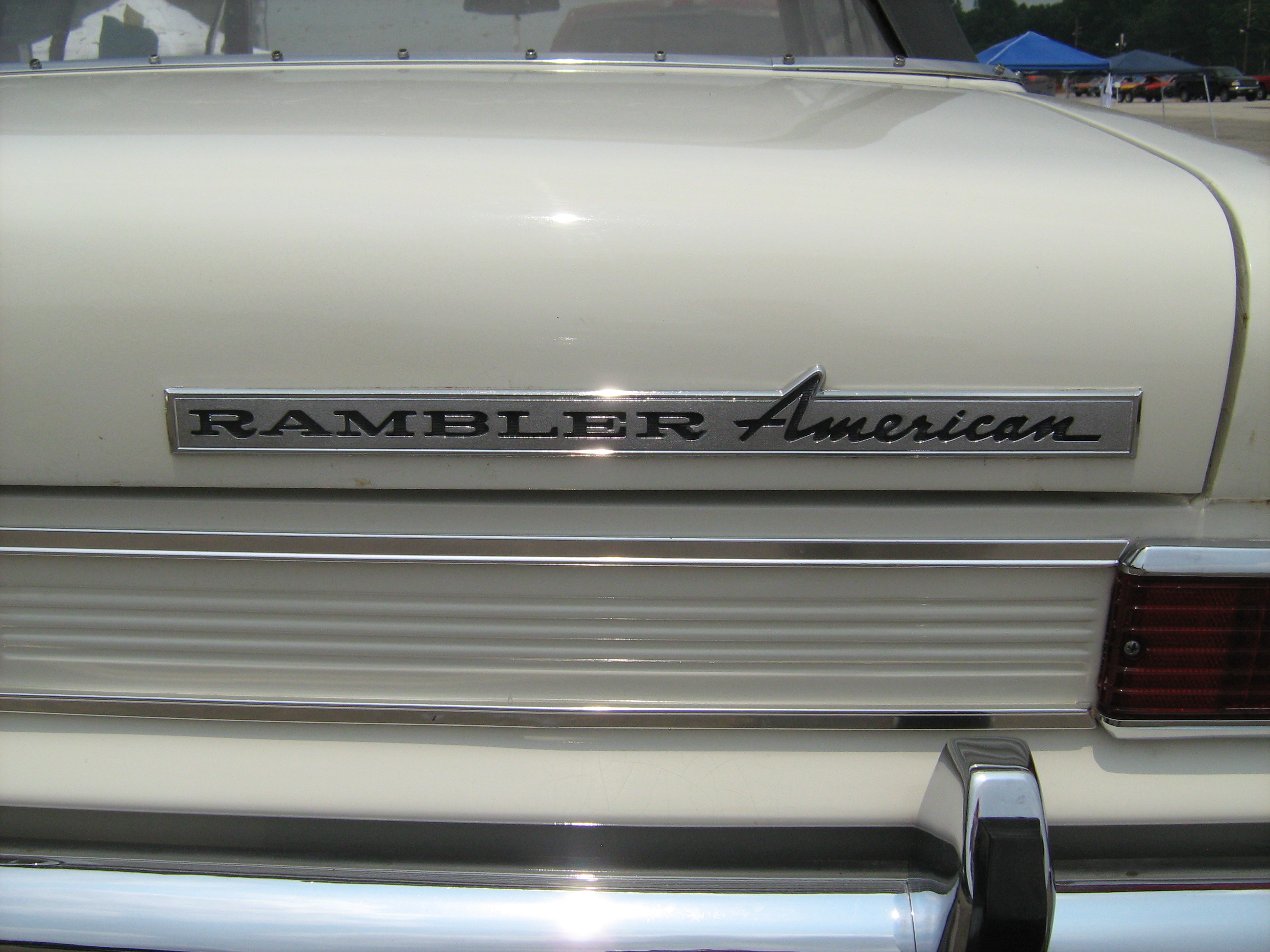 The Rambler American badge on trunk lid of a 1965 Rambler American - a compact car produced by American Motors Corporation (AMC). This white two-door convertible is the 440 model and features AMC's entirely new 232 cu in (3.8 L) straight-6 engine that AMC would use through 1979, and then continue being built through 2006 in different displacements (including the 4.0 L Jeep engine) under AMC, and later Chrysler. Photograph taken in the vendor's area at Potomac Ramblers Club's 2011 all AMC Drag Race Day held at the Capitol Raceway located in Crofton, Maryland.